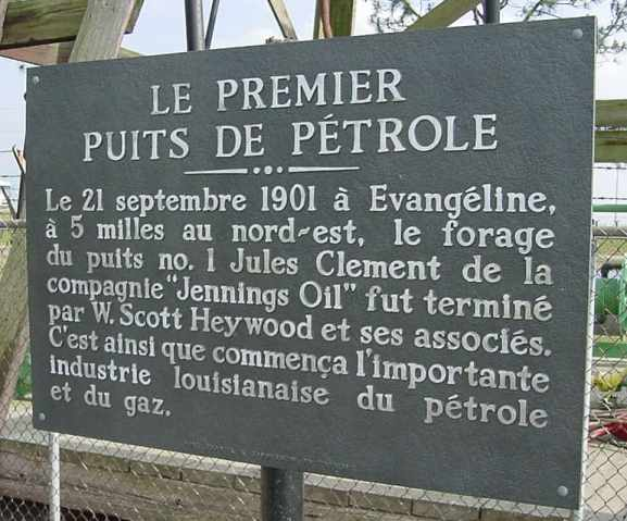 First Oil Well in the United States - Sign at the Well, Jennings, Louisiana